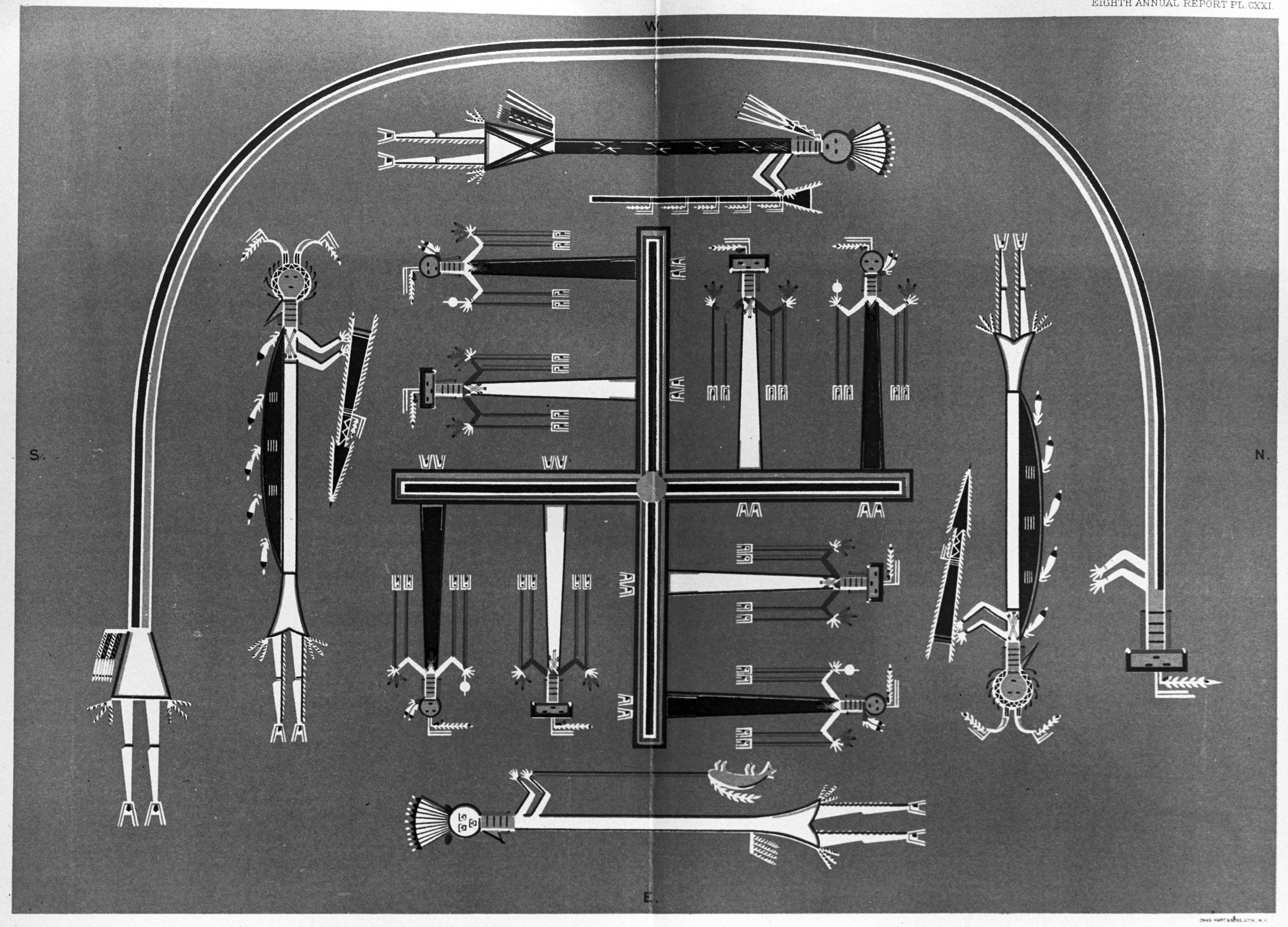 Close-up view of a Native American (Navajo) sand painting. The painting depicts Yei figures in symmetrical, reciprocal positions, with one elongated figure spanning from one end of the painting to another.